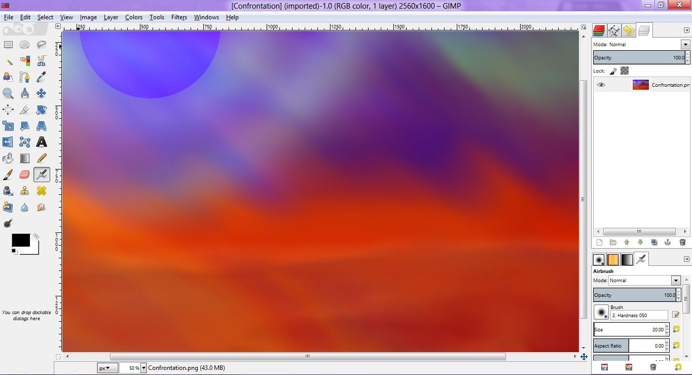 A screenshot of Gimp version 2.8's first release candidate demonstrating single-window mode.